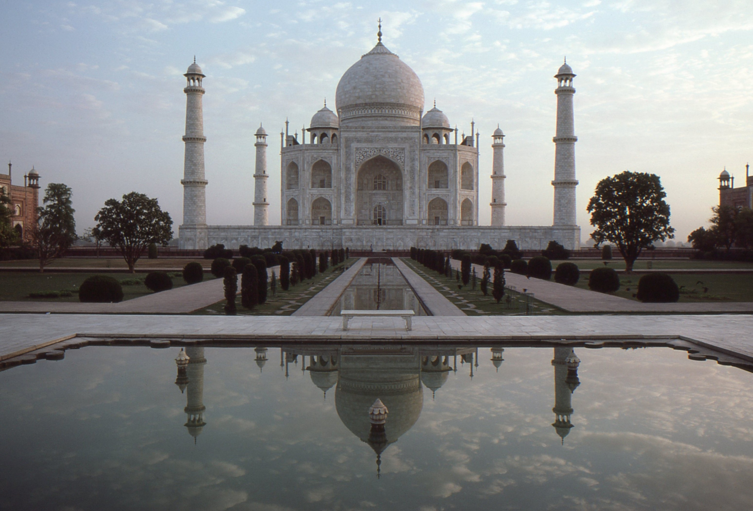 Dawn photo of the Taj Mahal in 1977. There is just 1 groundsman in the photo, if you can find him! Usage must be attributed to "Chris Mills, Auckland, New Zealand, 1977". Image is supplied in a resolution capable of A1 reproduction. Dedicated to my best friend "Vinaya".